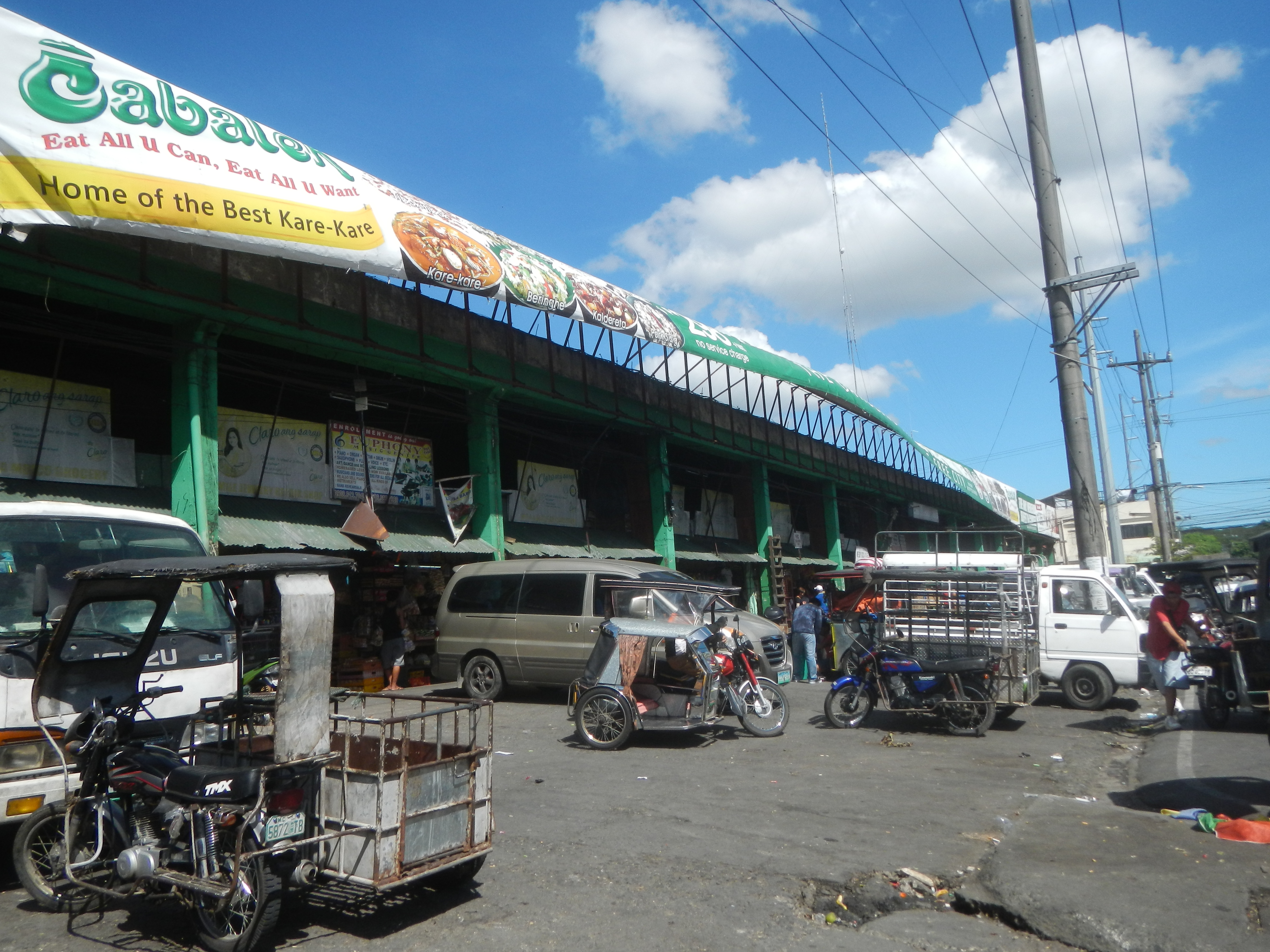 SM City Trece Martires Tower Mall (San Agustin Poblacion, City of Trece Martires, Cavite) City of Trece Martires Public Market, Cavite E-Home Trece Martires Thirteen Martyrs of Cavite Monument in Trece Martires City - 2018 Barangay San Agustin (Poblacion), City of Trece Martires 14°17'3"N 120°51'23"E Luciano (Poblacion), City of Trece Martires 14°16'43"N 120°52'14"E Inocencio, City of Trece Martires 14°15'17"N 120°52'37"E De Ocampo 14°17'46"N 120°51'55"E Trece Martires Tanza–Trece Martires Road corner Trece Martires–Indang Road towards Aguinaldo Highway corner Governor's Drive Governor's Drive (City of Trece Martires, Cavite) Philippine highway network (Note: Judge Florentino Floro, the owner, to repeat, Donor Florentino Floro of all these photos hereby donate gratuitously, freely and unconditionally all these photos to and for Wikimedia Commons, exclusively, for public use of the public domain, and again without any condition whatsoever).